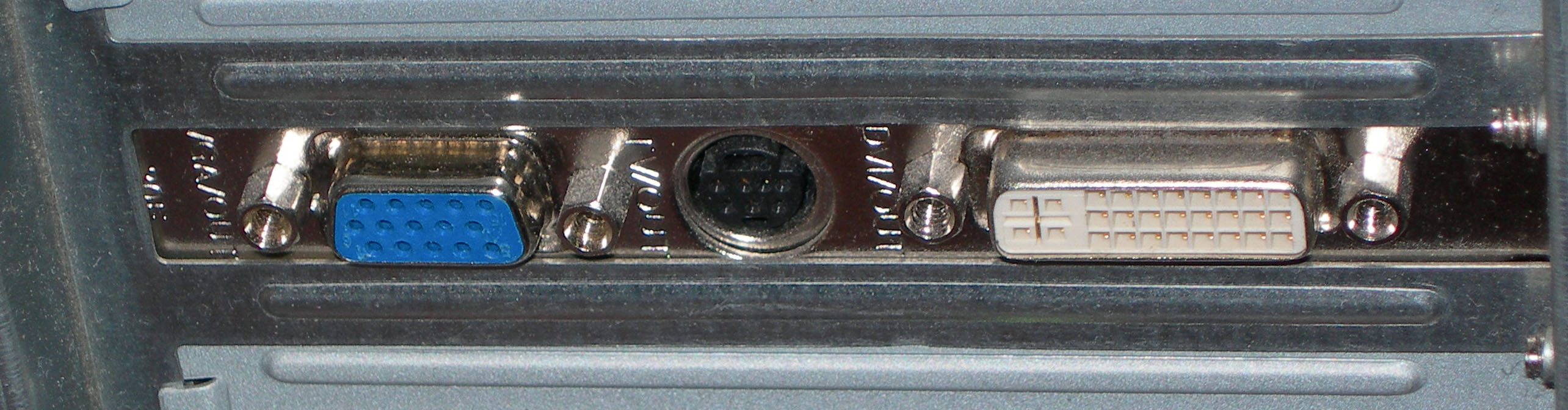 Video card outputs (SVGA, S-Video, DVI)